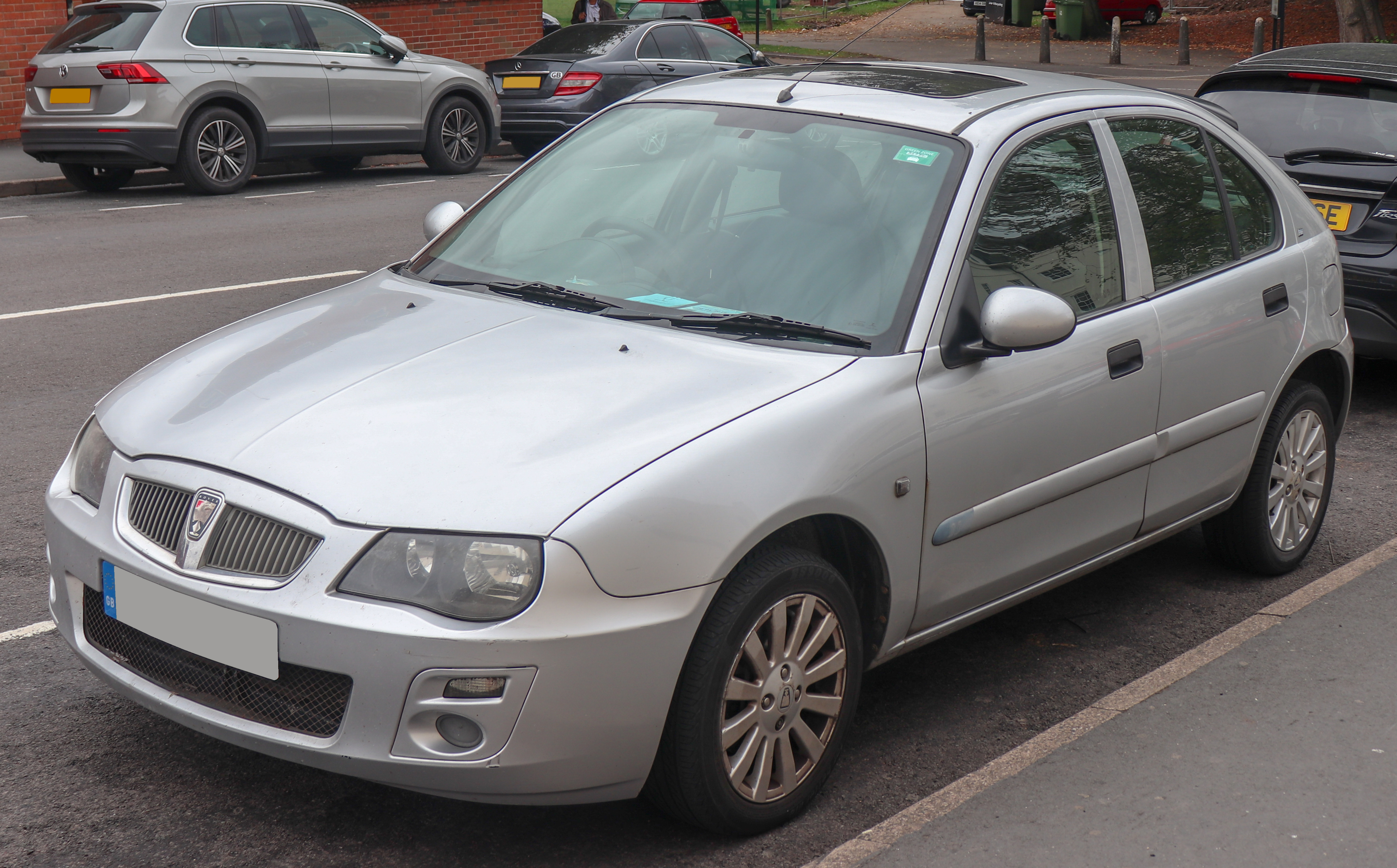 2006 Rover 25 GLi 1.4 Front (Late 06 Reg) Taken in Leamington Spa